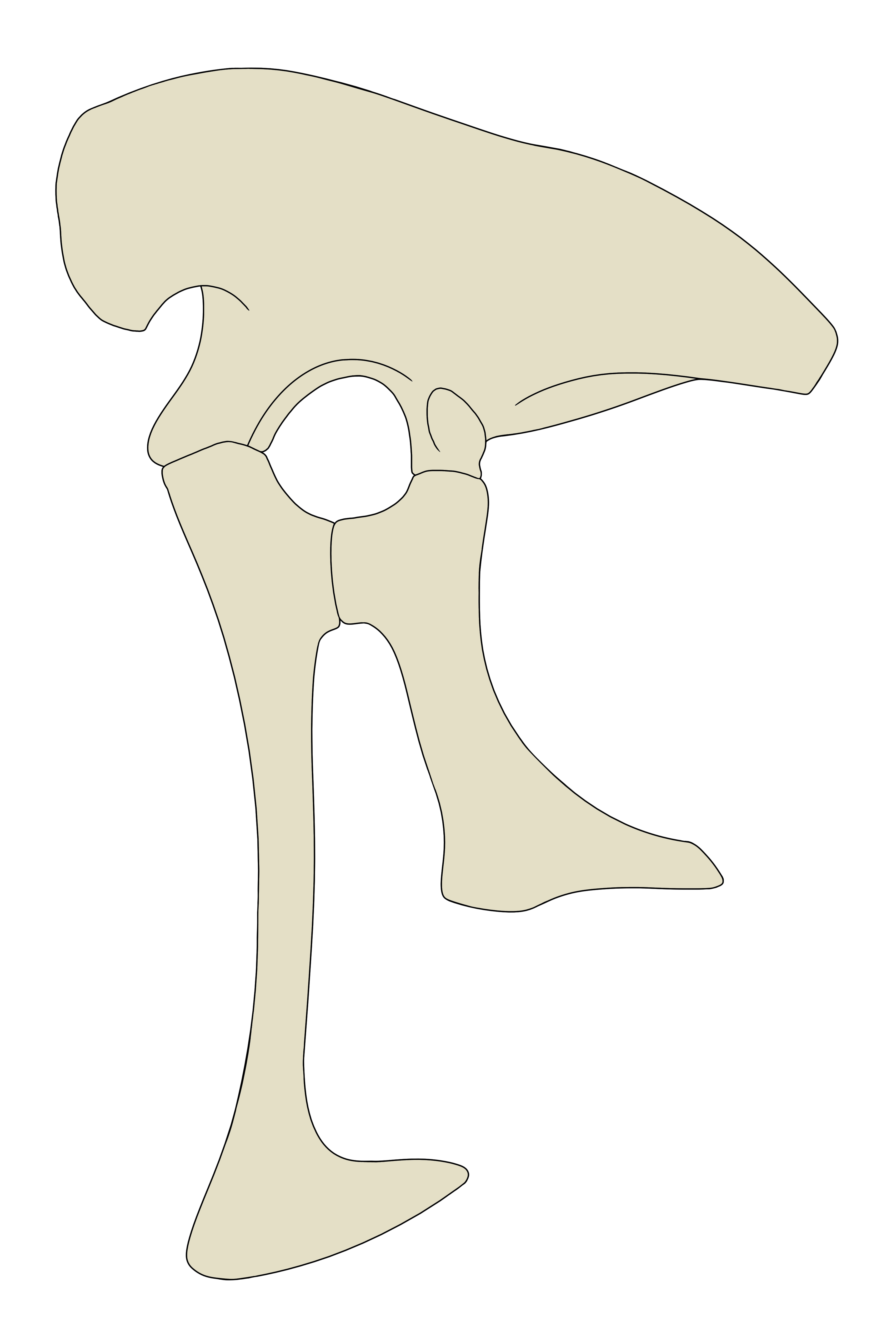 Reconstruction of the hip bone of an adult Utahraptor.